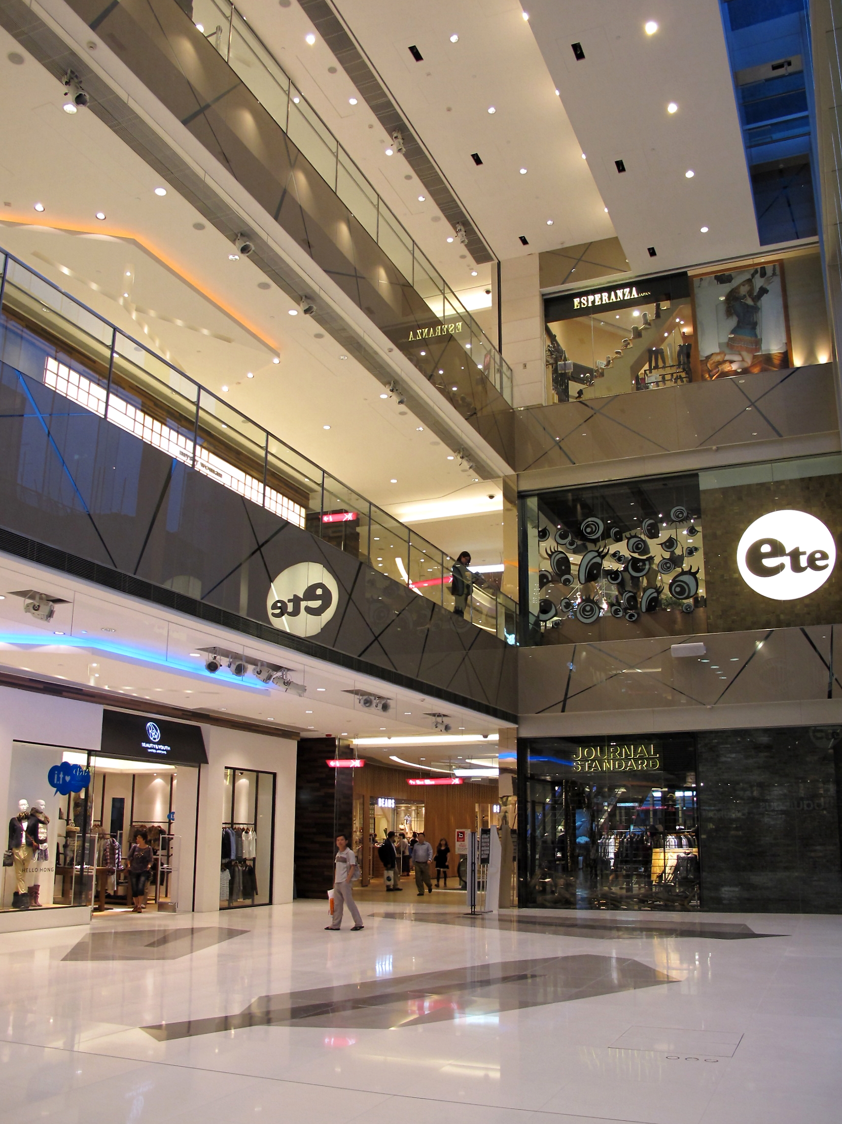 HK The ONE